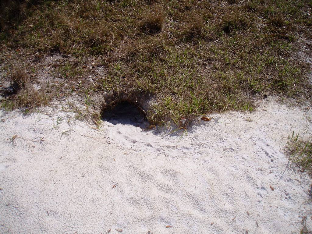 Hole of the Gopher Tortoise, taken at Platt Branch Mitigation Area near Venus, Highlands County, Florida.